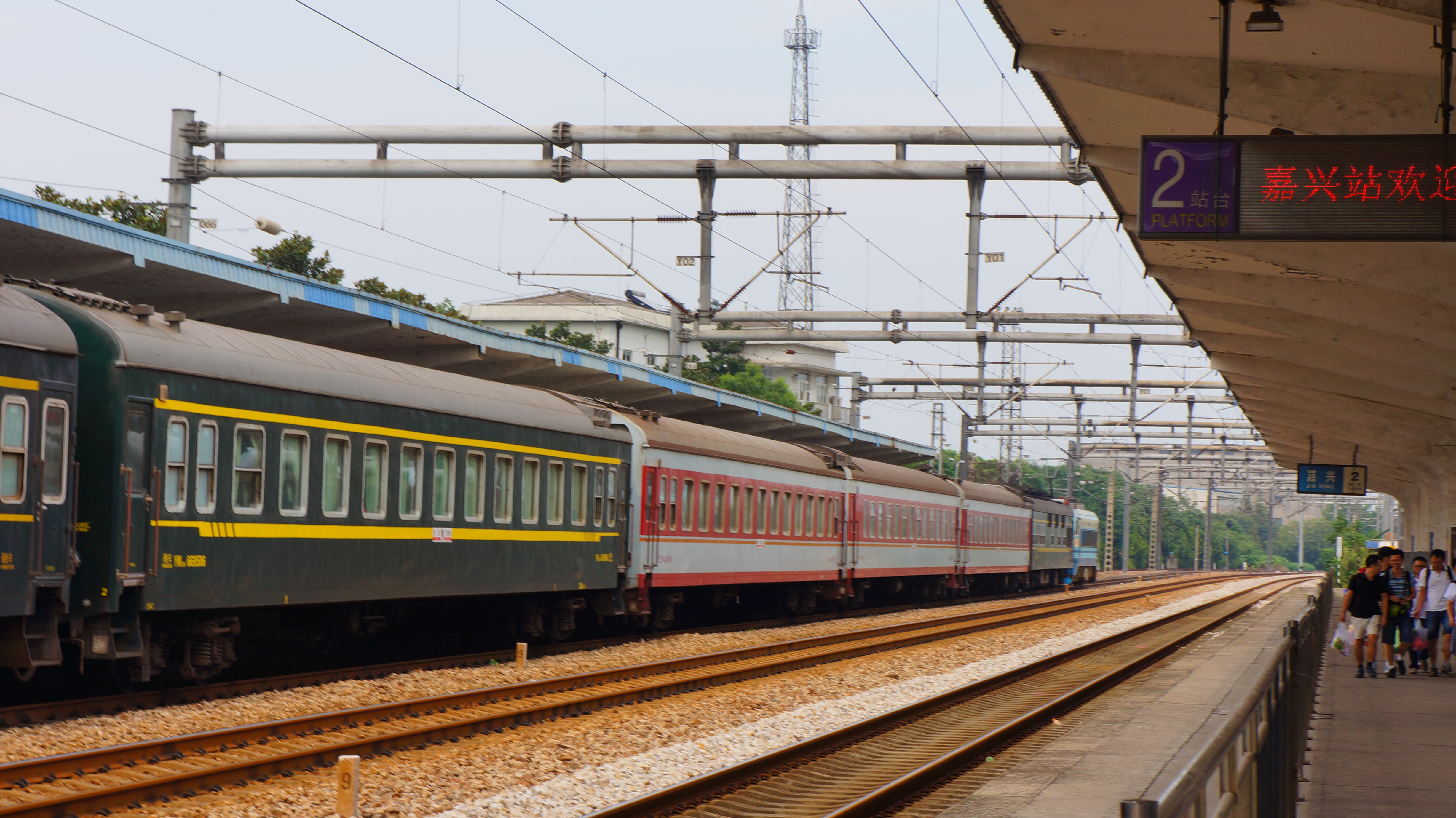 Tracks on Jiaxing Railway Station(Shanghai Direction)